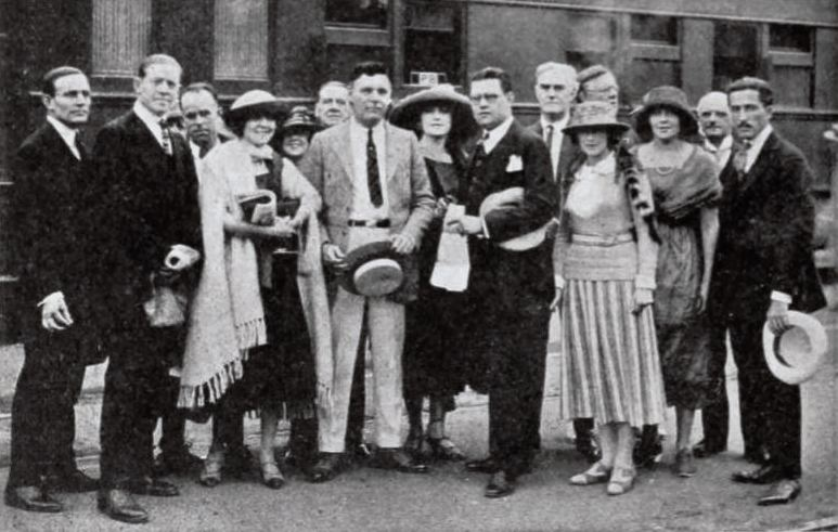 Still from the production of the American film serial Nan of the North (1922) with the cast and crew of the Ben Wilson Serial Company headed to Yellowstone Park for location shots, (from the left) J. Morris Foster, Tom London (credited as Leonard Chapman), cameraman William Nobel, Ann Little, Ben F. Wilson, Edith Stayart (1890 – 1970), business manager Ashton Dearholt, Joseph W. Girard, Helene Rosson (credited as Helen Rosson), Helen Egard, Hal Wilson, and Wilbur McGaugh (1895 – 1965), on page 72 of the October 15, 1921 Exhibitors Herald.